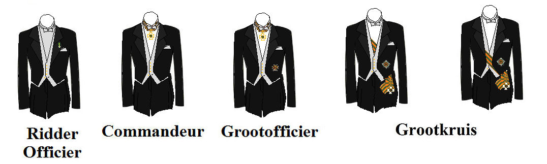 Ordre de la couronne de Chêne Luxembourg Order of the Oak Crown Luxemburg